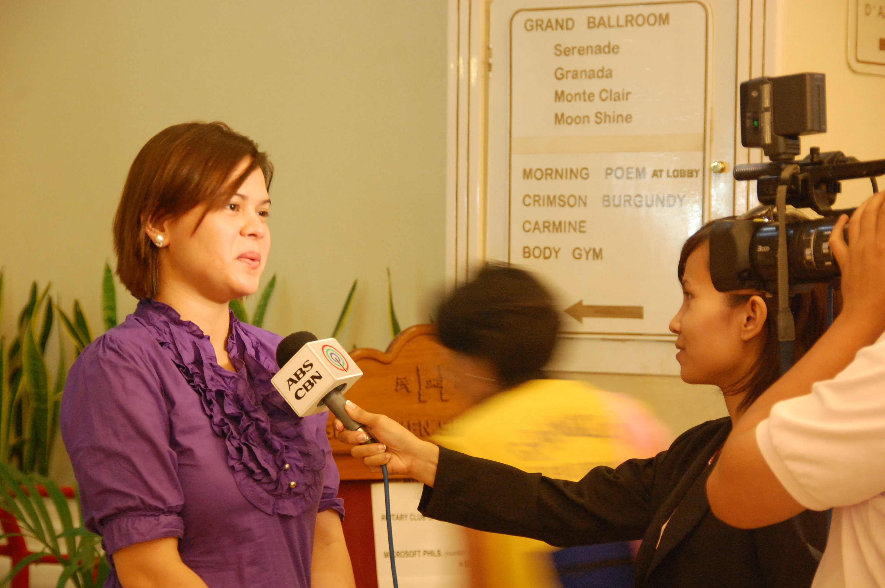 Interview [of Davao Vice Mayor, Sara Duterte] by ABS-CBN News Crew at Grand Men Seng Hotel